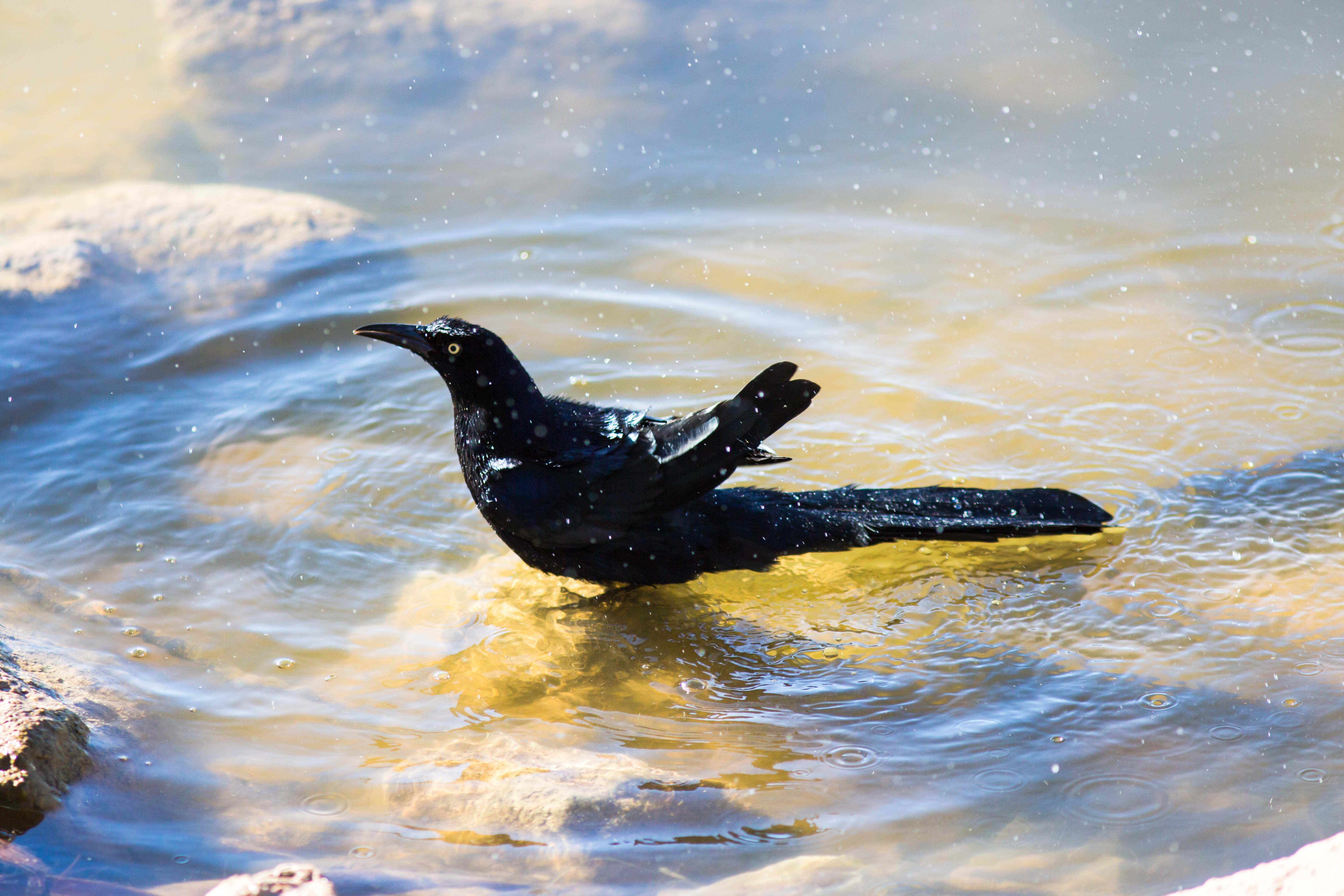 Great-Tailed Grackle